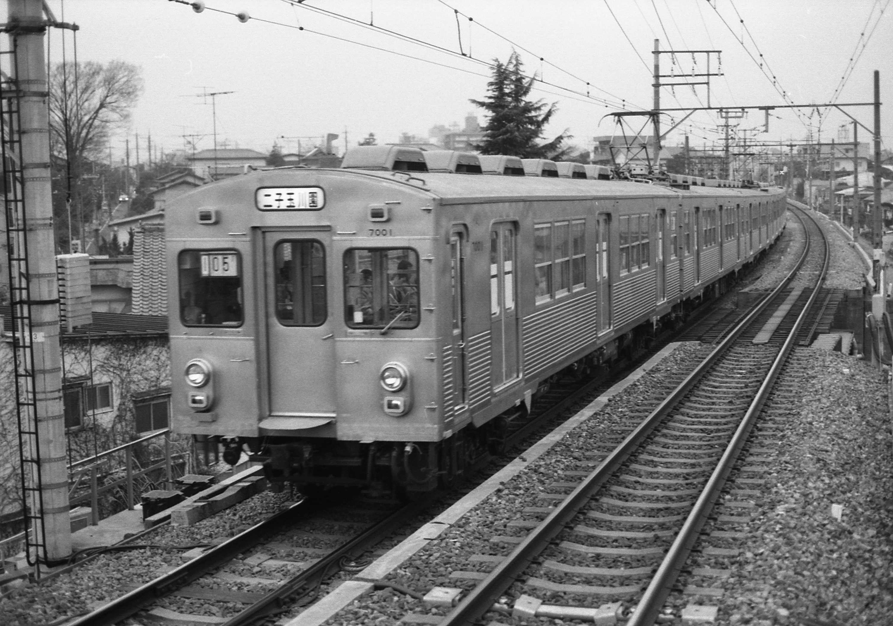 An Oimachi Line train with 7000 series to Futako tamagawa en leaving Midorigaoka station